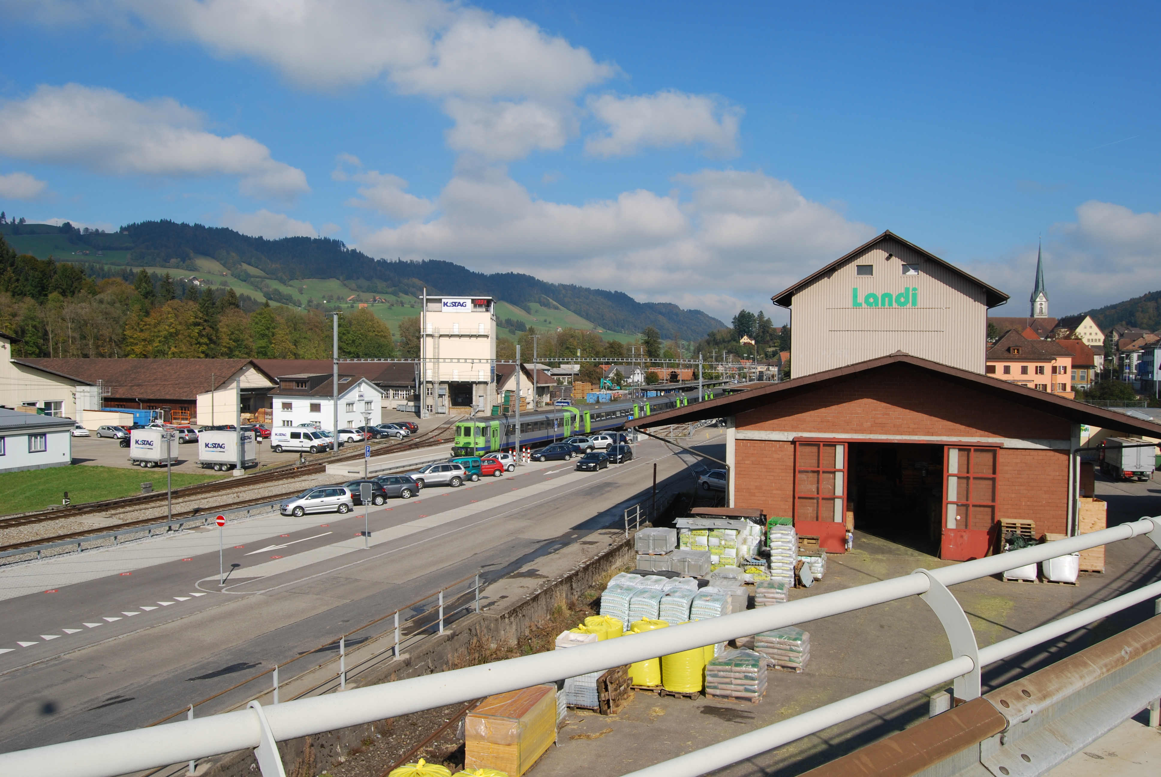 Train station of Schüpfheim, canton of Luzern, SwitzerlandEsperanto: Stacidomo de Schüpfheim, Kantono Lucerno, Svislando